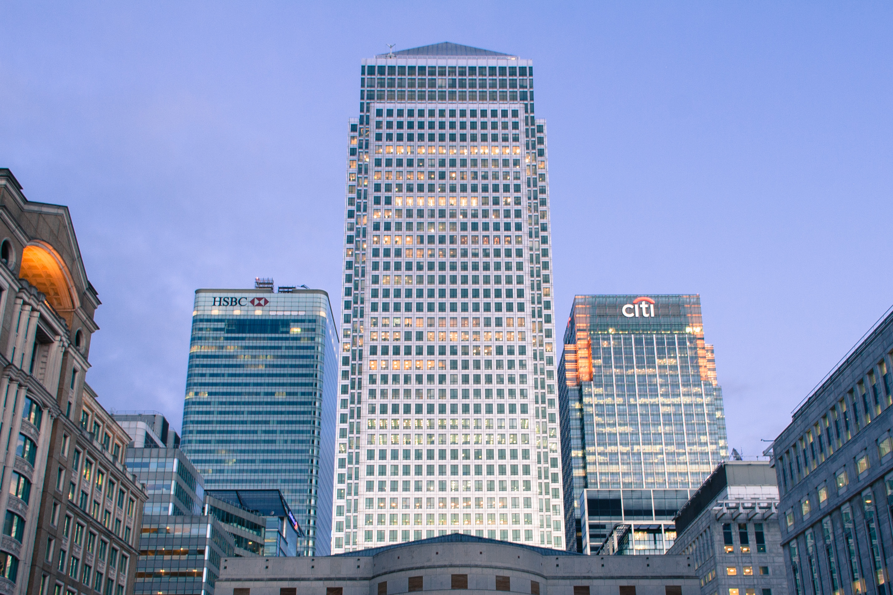 1 Canada Square taken from Cabot Square